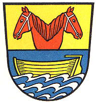 Coat of arms of the municipality of Berne.